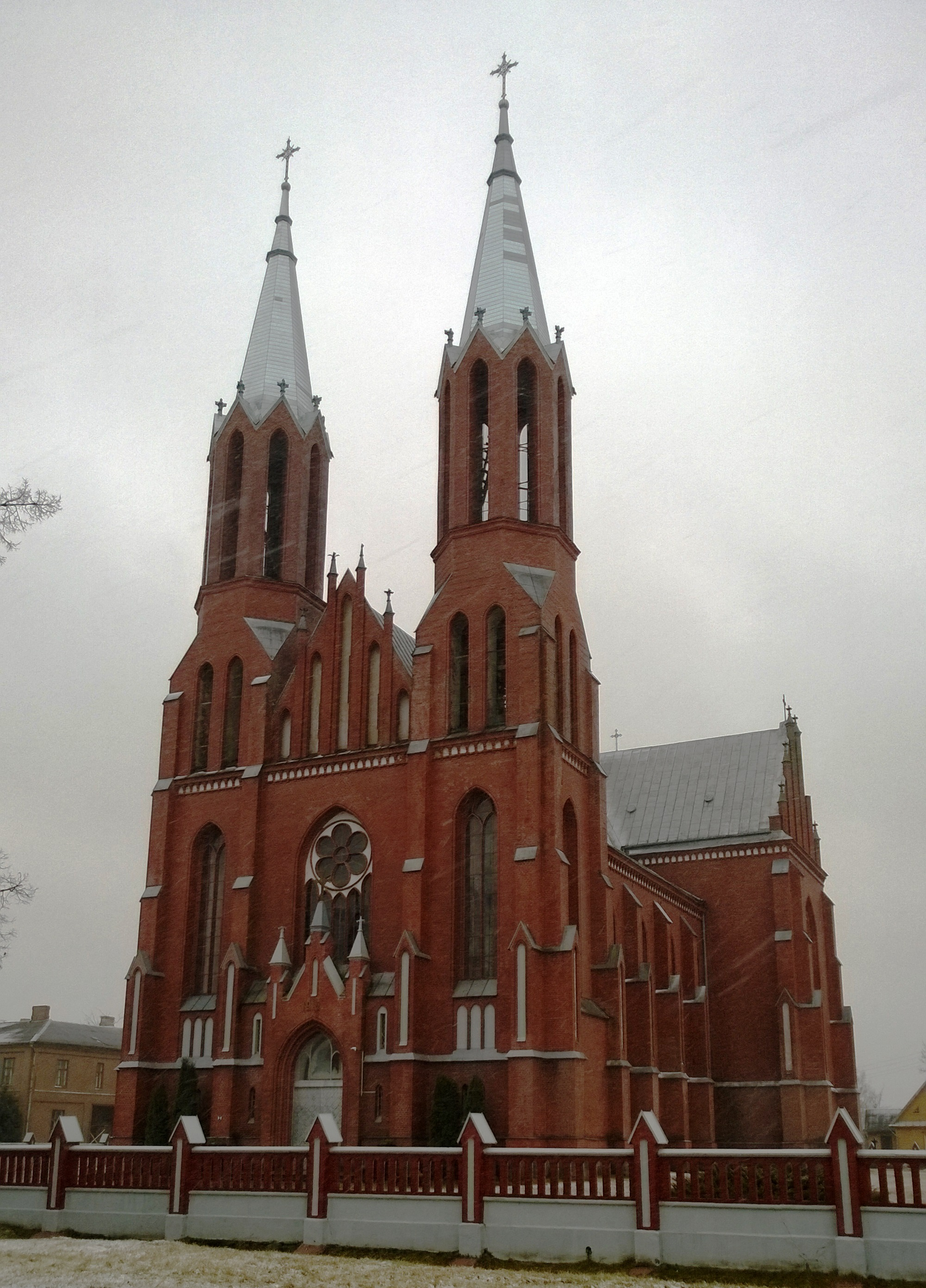 Līksna (Leiksna) Sacred Heart of Jesus Roman Catholic Church, Daugavpils municipality, Latvia.